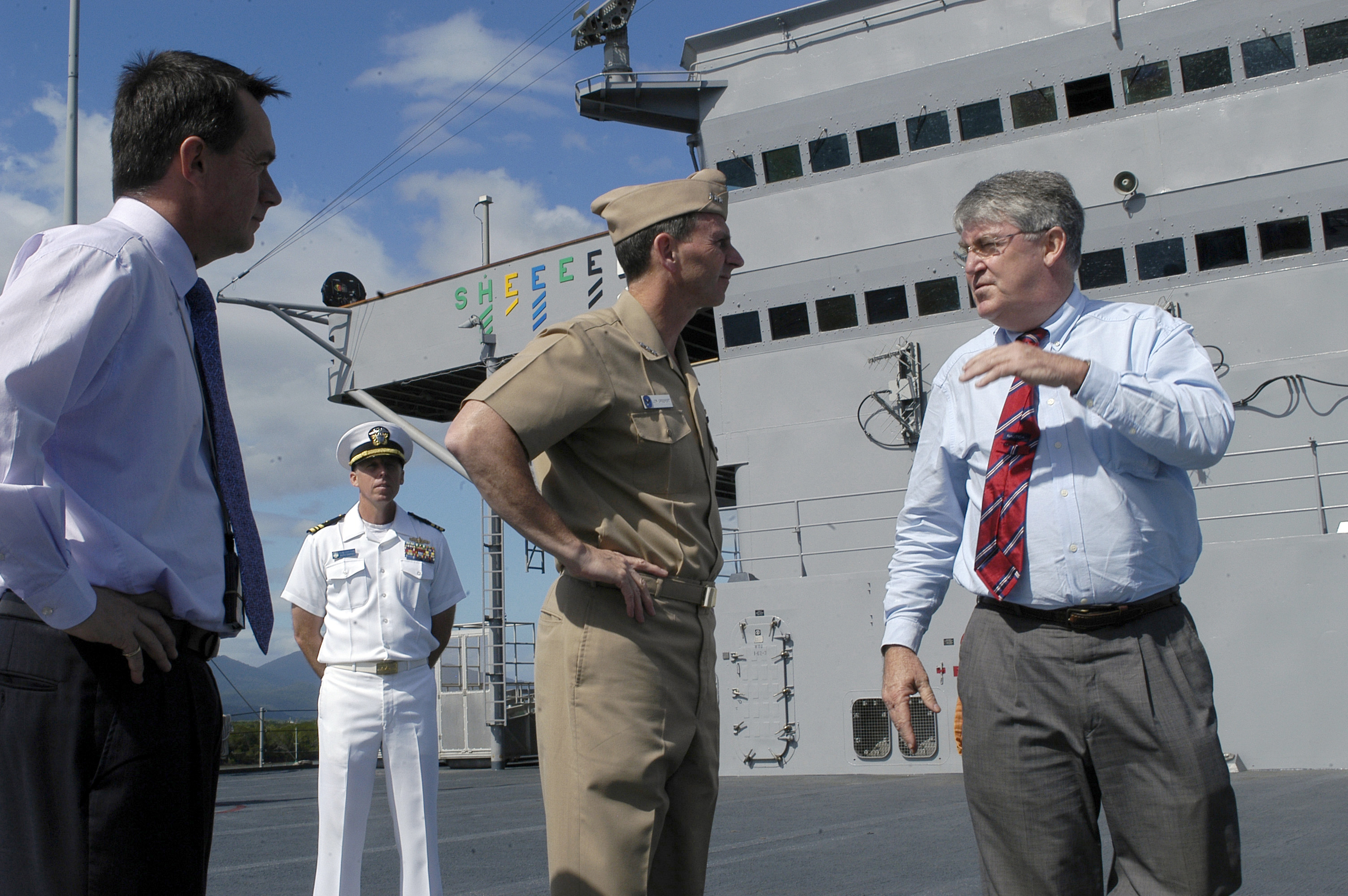 Cairns, Queensland, Australia (May 30, 2005) - Commander U.S. 7th Fleet, Vice Adm. Jonathan Greenert, center, speaks with Cairns Mayor Kevin Byrne, right, on the main deck aboard the amphibious command ship USS Blue Ridge (LCC 19) during the mayor's brief visit prior to the ship's departure. Blue Ridge completed a scheduled four-day visit to Cairns, where nearly 1,000 Sailors and Marines enjoyed recreational activities and took part in community service projects. The ship is gearing up to participate in exercise Talisman Saber 2005 with the Australian armed forces. Blue Ridge is forward deployed to Yokosuka, Japan. U.S. Navy photo by Journalist 2nd Class Patrick Dille (RELEASED)